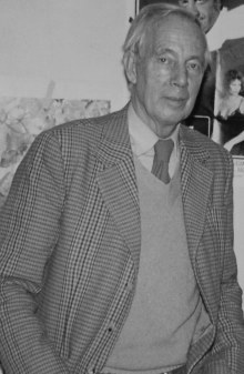 Hugo von Habermann, the younger (1899-1981), photo taken 1976 in Munich in his painting class